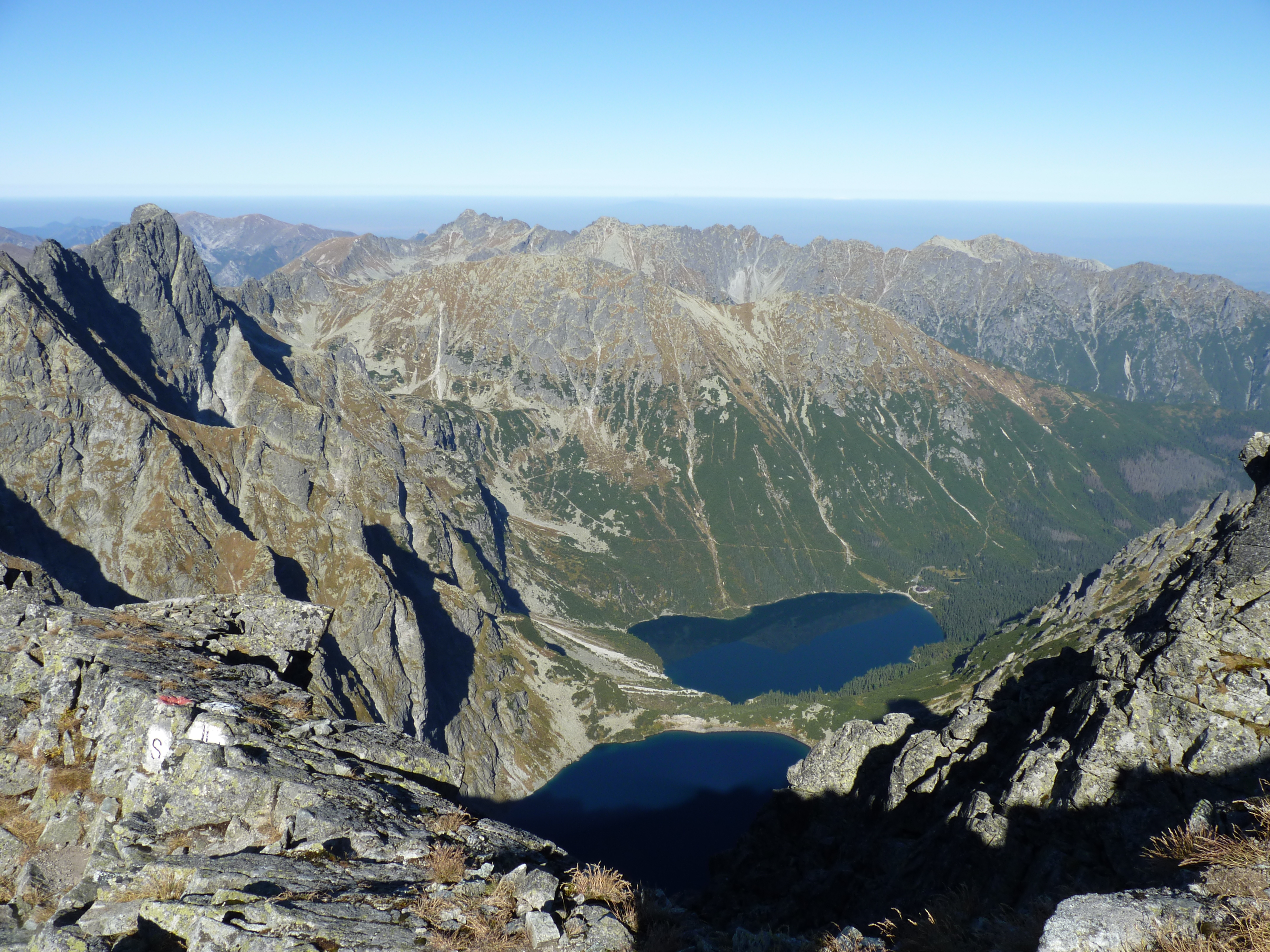 View from Rysy mountain to Poland, High Tatra Mountains, Slovakia